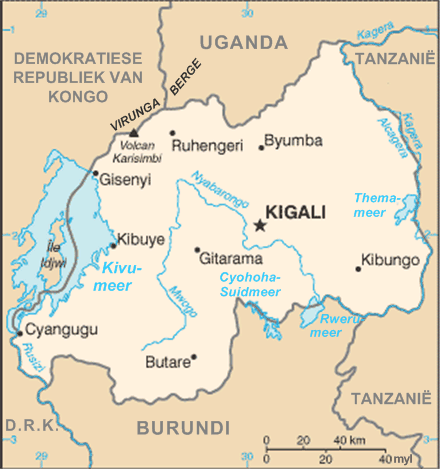 An Afrikaans map of Rwanda.